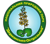 Dermansko-Ostrozkyi National Nature Park